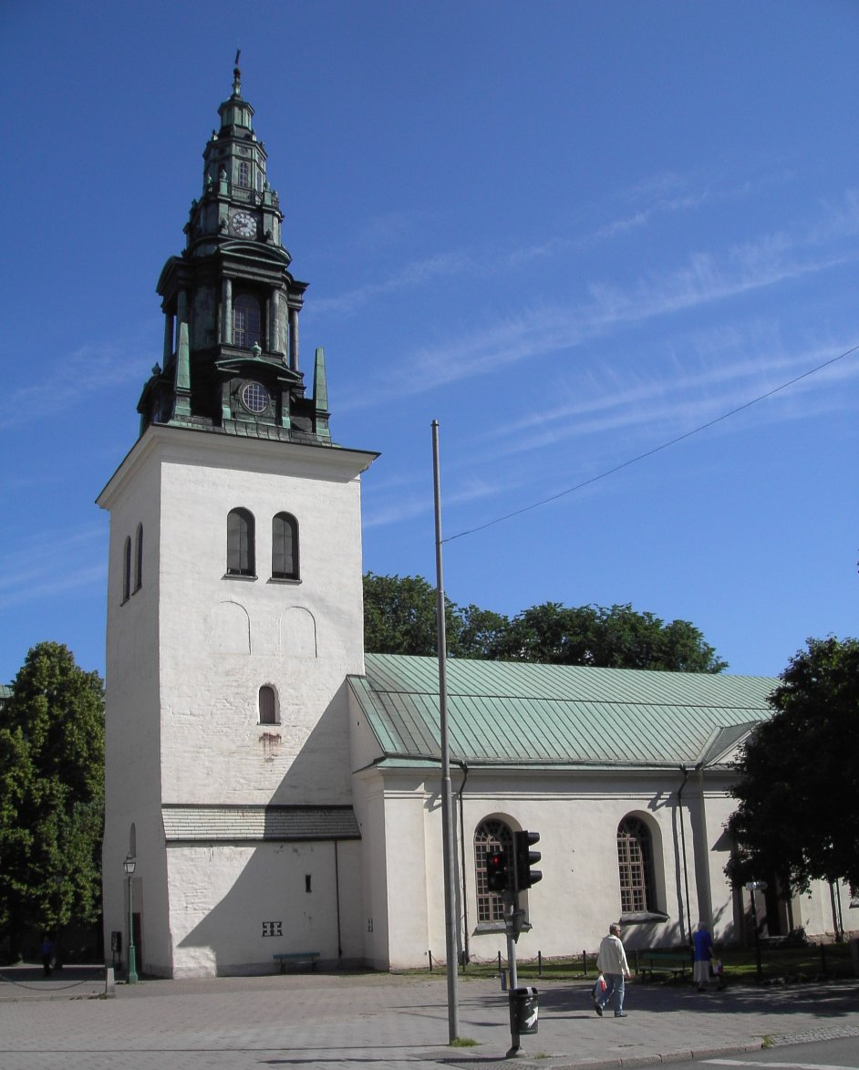 Church of Saint Laurentius, Linköping, Östergötland, Sweden